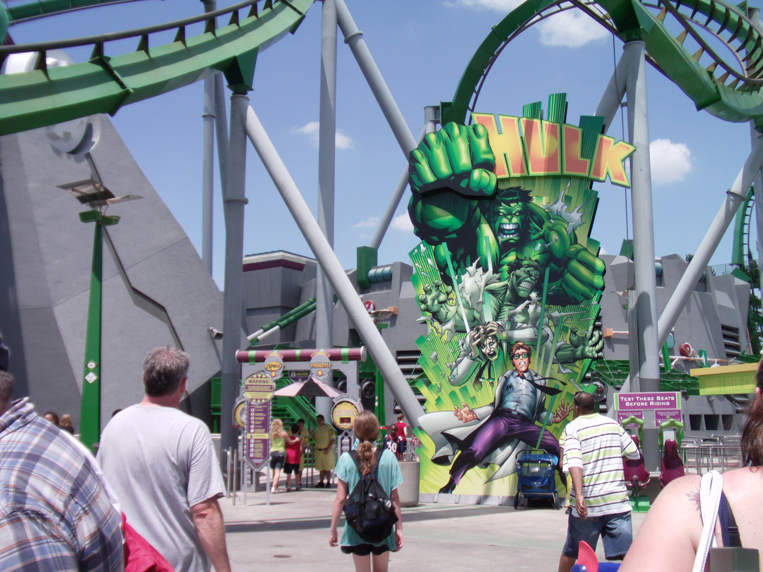 Entrance of the Incredible Hulk Coaster at Islands of Adventure.